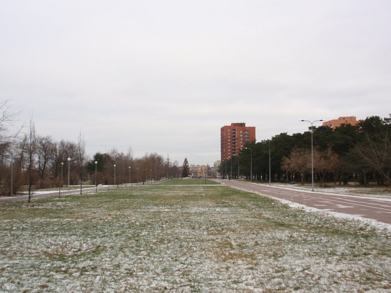 Pelguranna street, Tallinn.